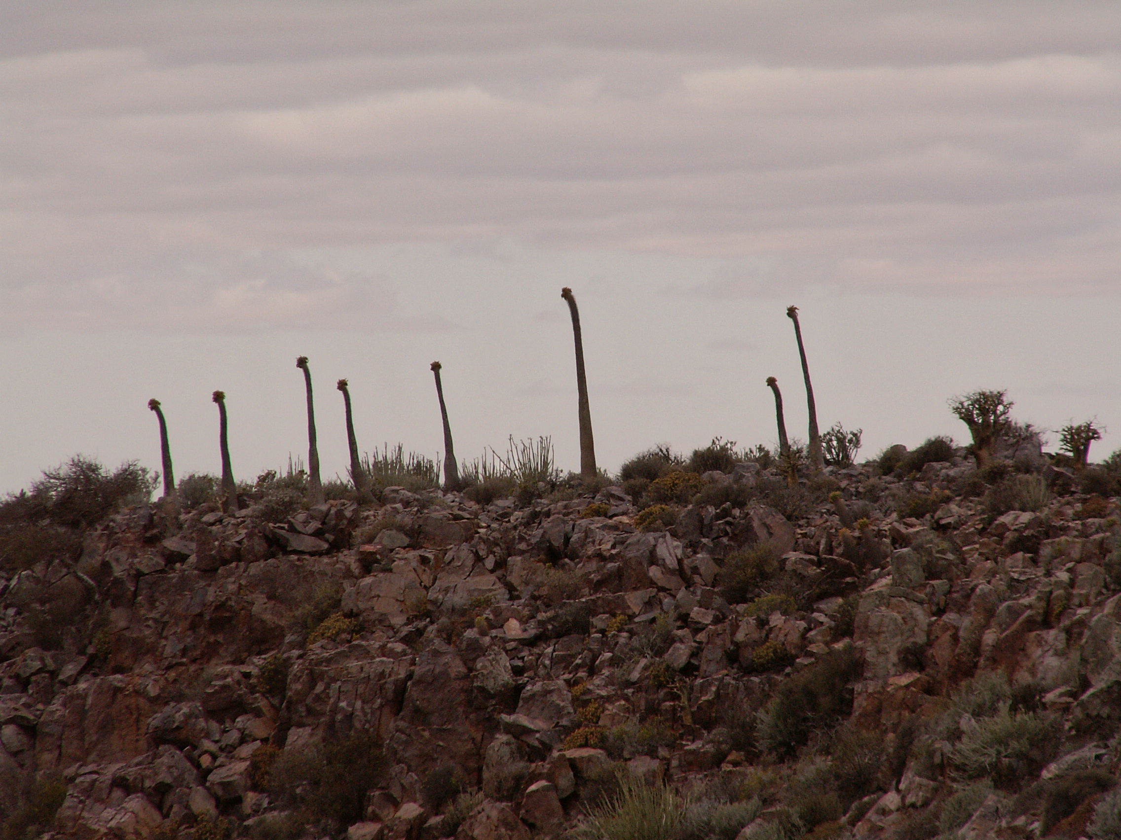 Halfmens, Half a man Pachypodium namaquanum (Wyley ex Harv.) Welw., Richtersveld National park, Northern Cape, South Africa